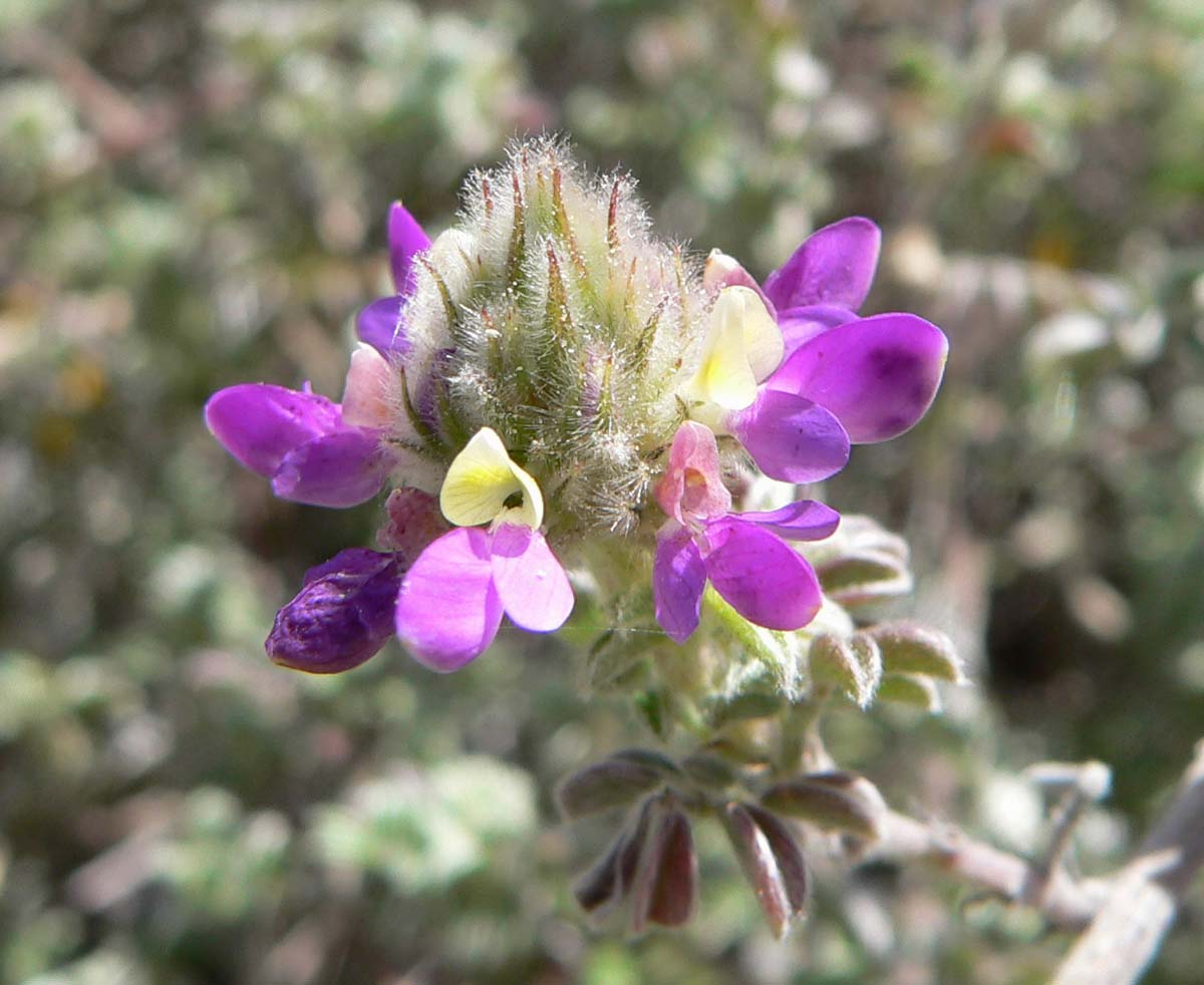 Photo of Dalea greggii (trailing indigo sage) at the Desert Demonstration Garden in Las Vegas, Nevada